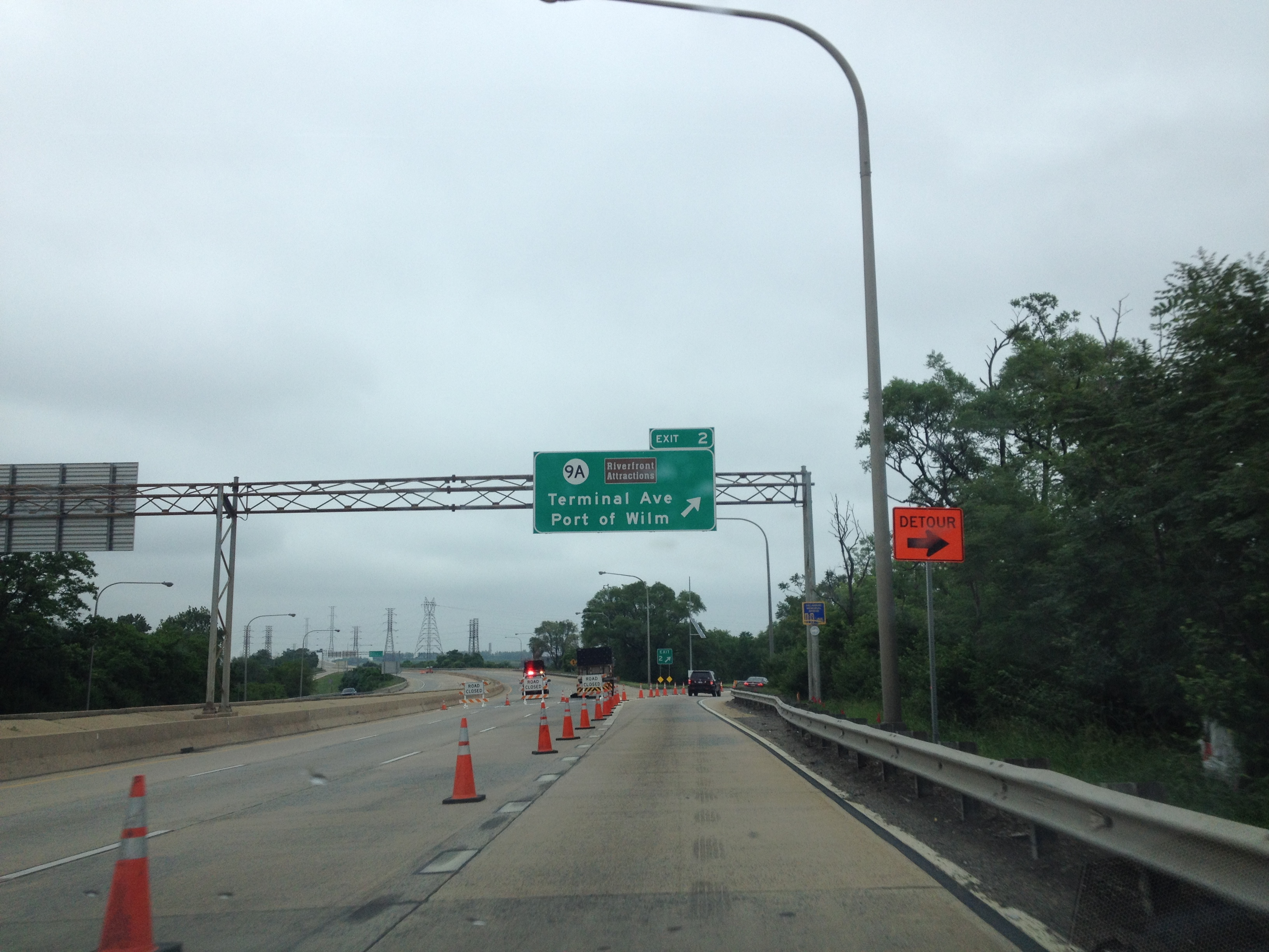 Northbound Interstate 495 at the exit for Delaware Route 9A (exit 2) in Wilmington, Delaware. All traffic is forced to exit here because the Christina River bridge is closed due to tilting support columns.